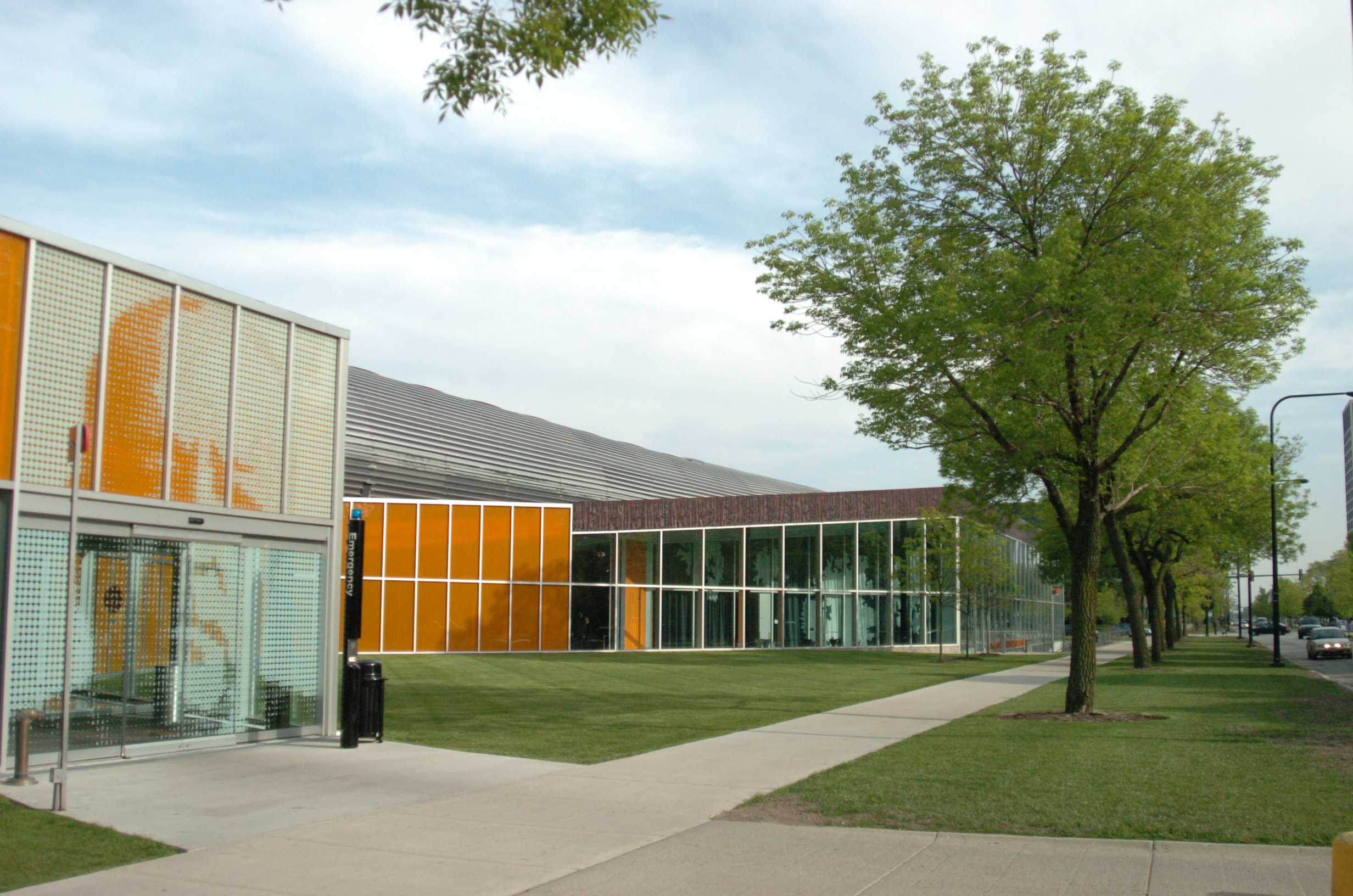 Rem Koolhaas' McCormick Tribune Campus Center, from the northwest. The door is an ideogram of Ludwig Mies van der Rohe, designer of IIT's Main Campus.